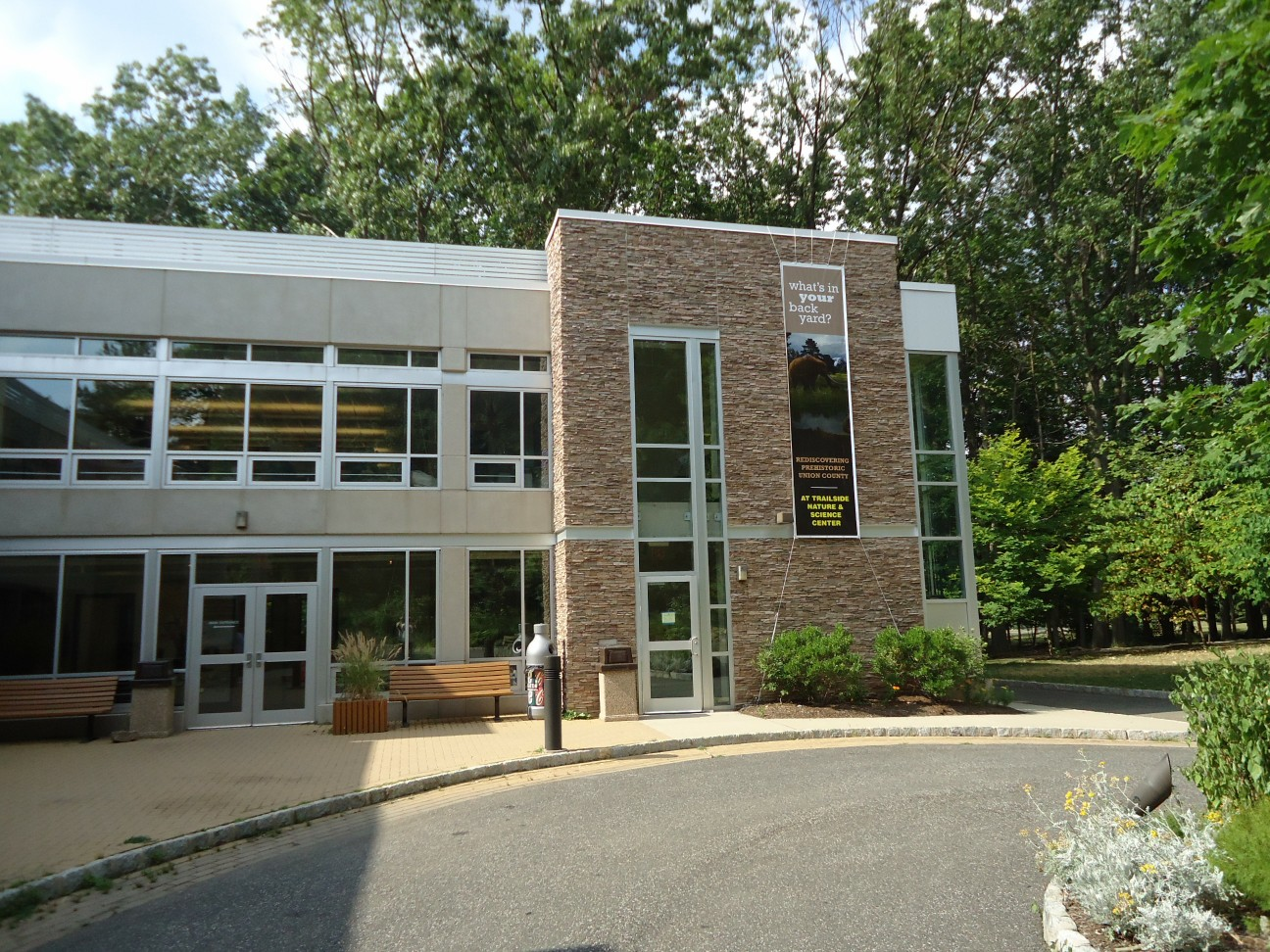 Exterior view of the front of the Trailside Nature & Science Center in Watchung Reservation in Mountainside, New Jersey.